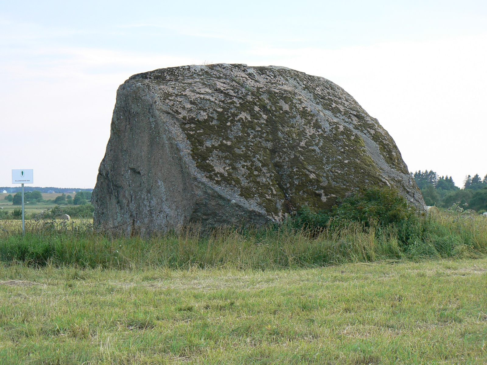 Ellandvahe glacial erratic in Estonia